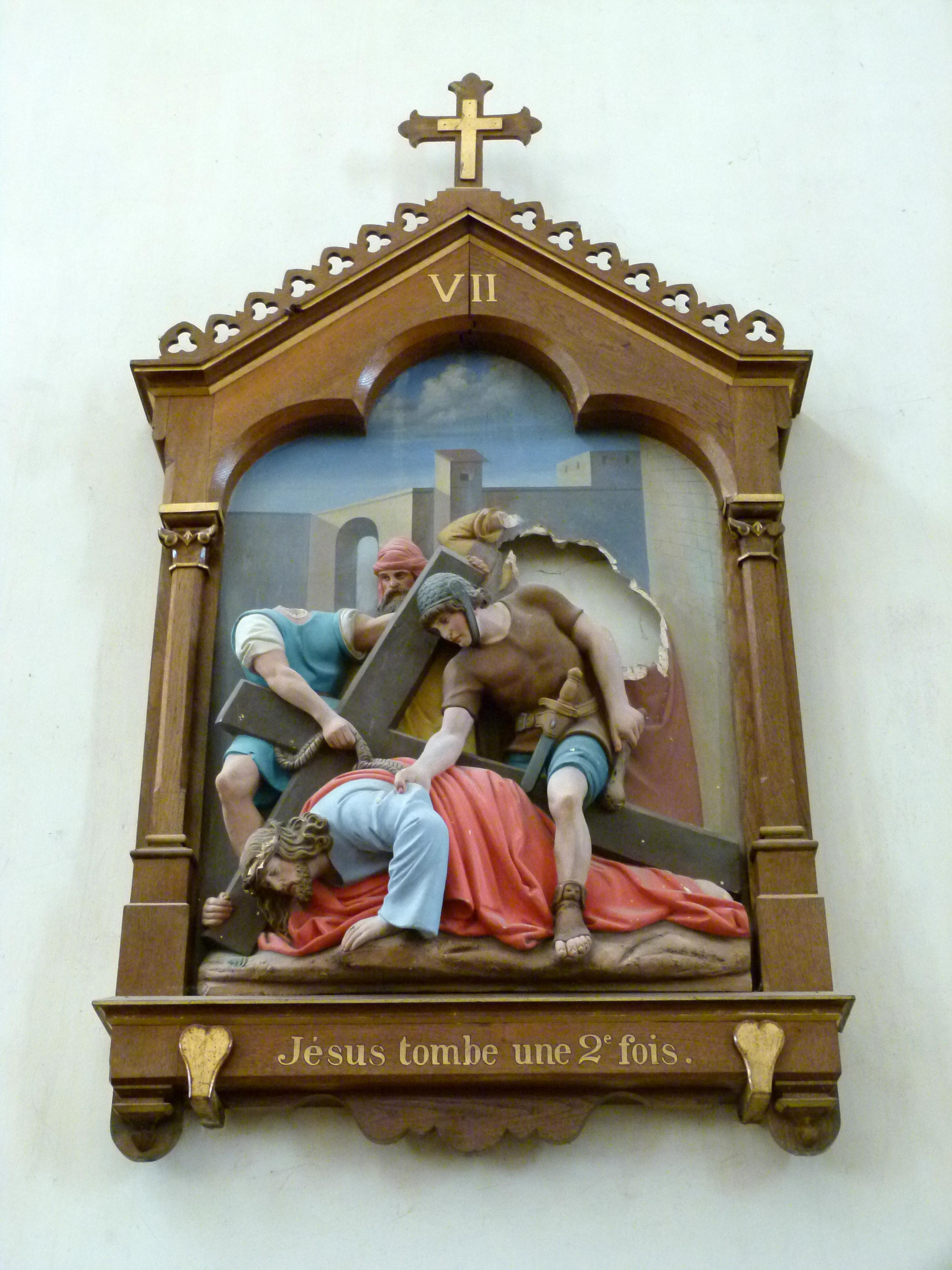 Station 7 of the Cross, damaged by shrapnel during the Second World War (Church Saint-Peter, Languidic, France).